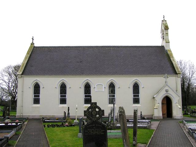 St Mary's RC Church, near to Brockagh and Aughamullan, Ireland. It is located between Brockagh and Mountjoy.